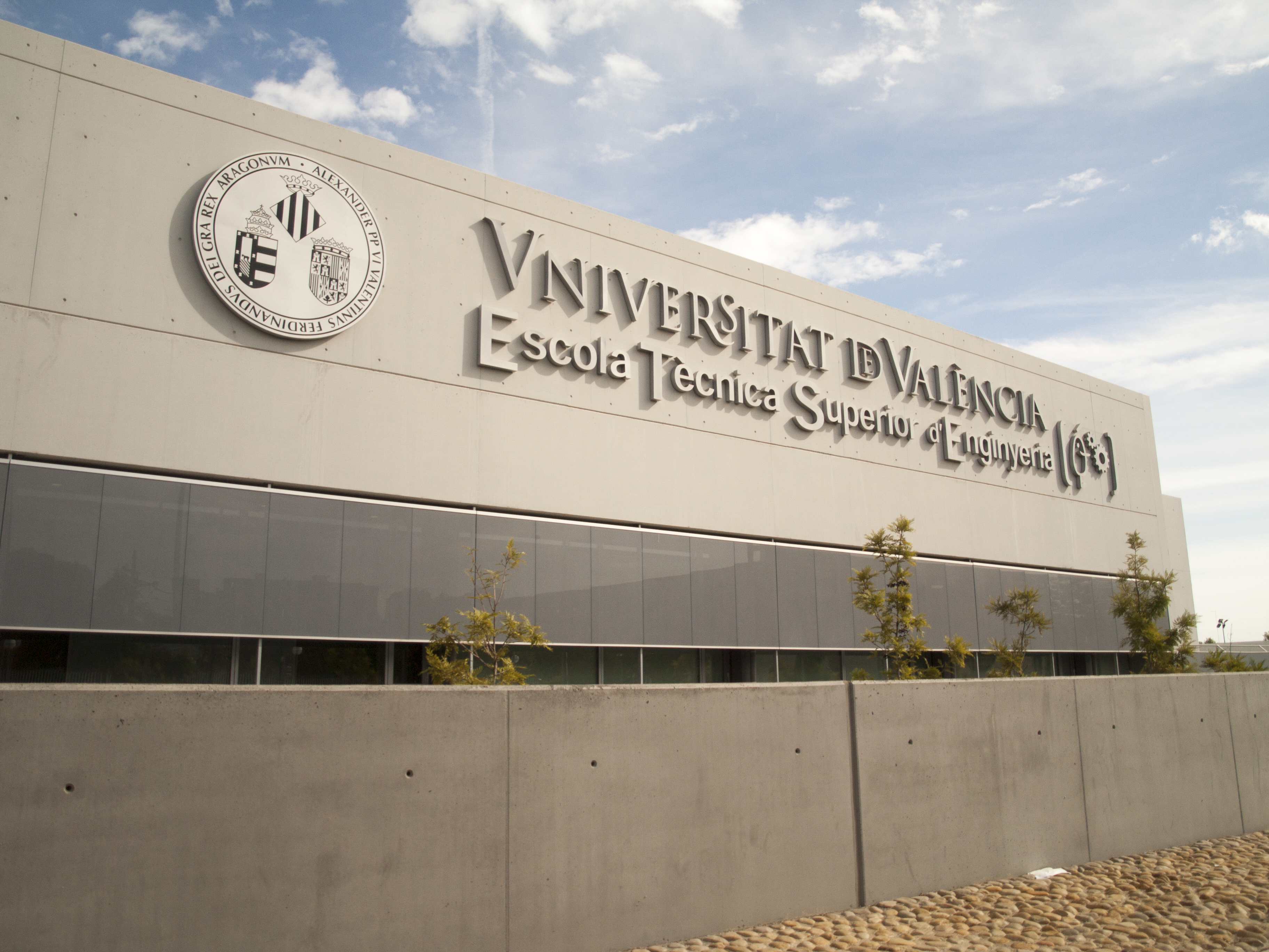 Sign on the front wall of Escola Tècnica Superior d'Enginyeria de València (ETSE).